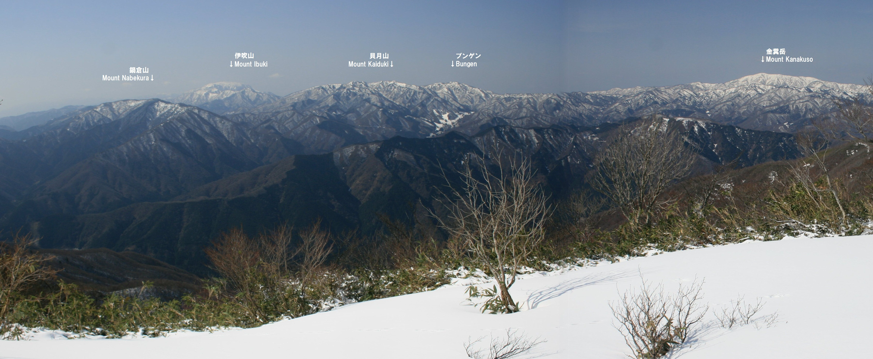 Ibuki Mountains seen from Mount Ozugongen